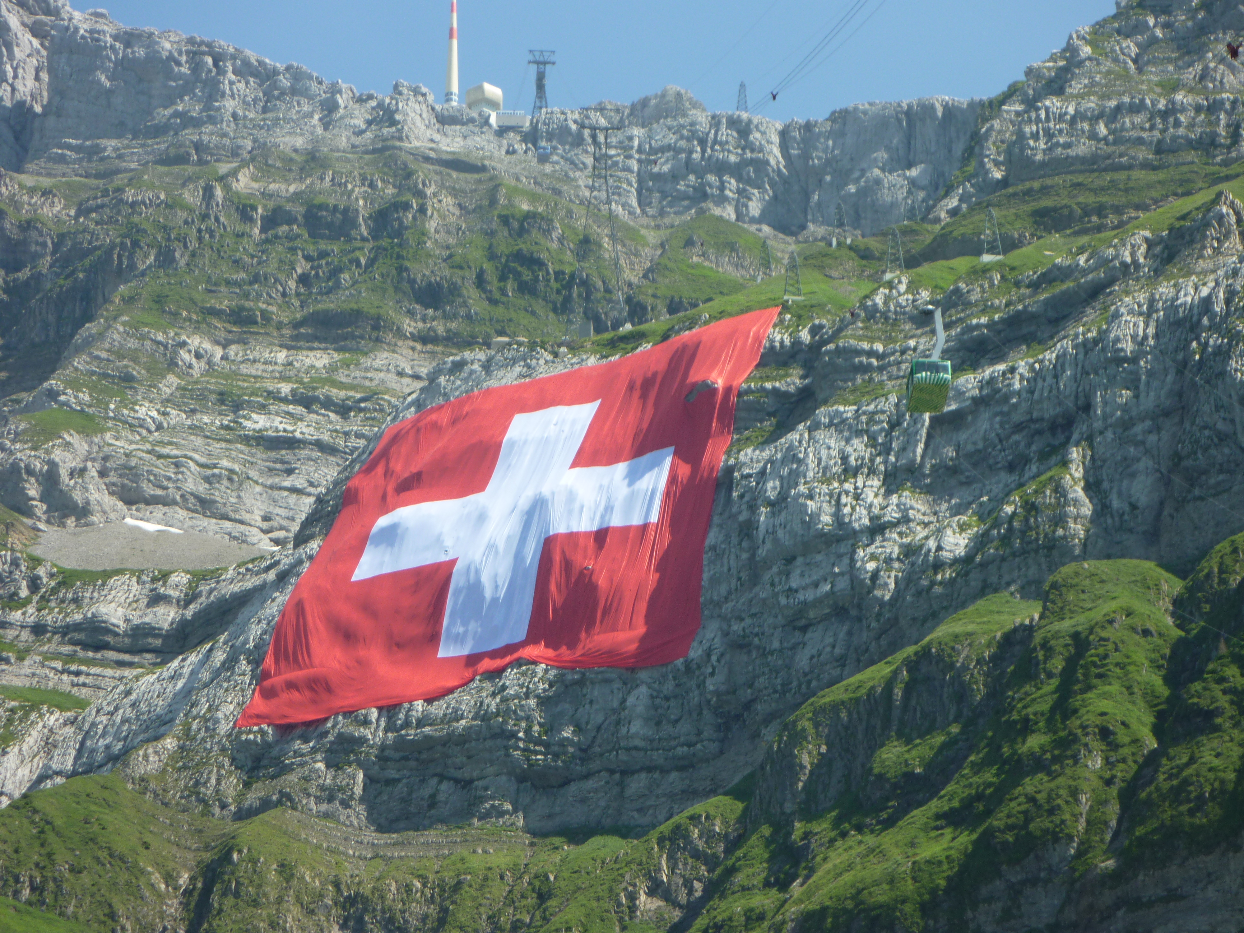 The world's biggest flag of Switzerland at the Säntis. The photo was takes on the parking of the Schwägalp